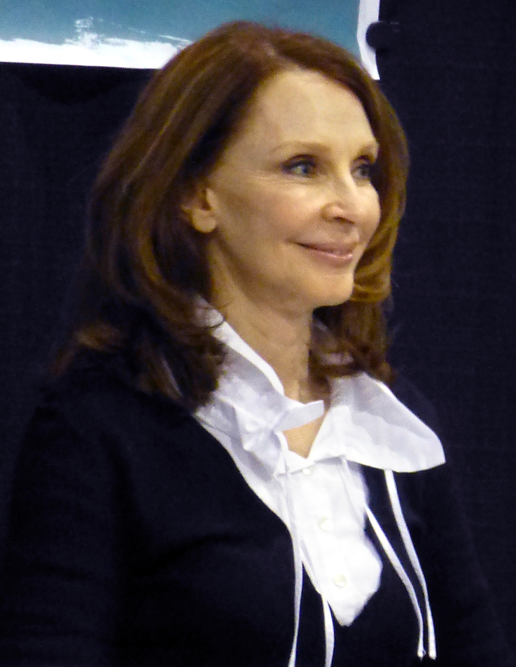 Gates McFadden in 2014